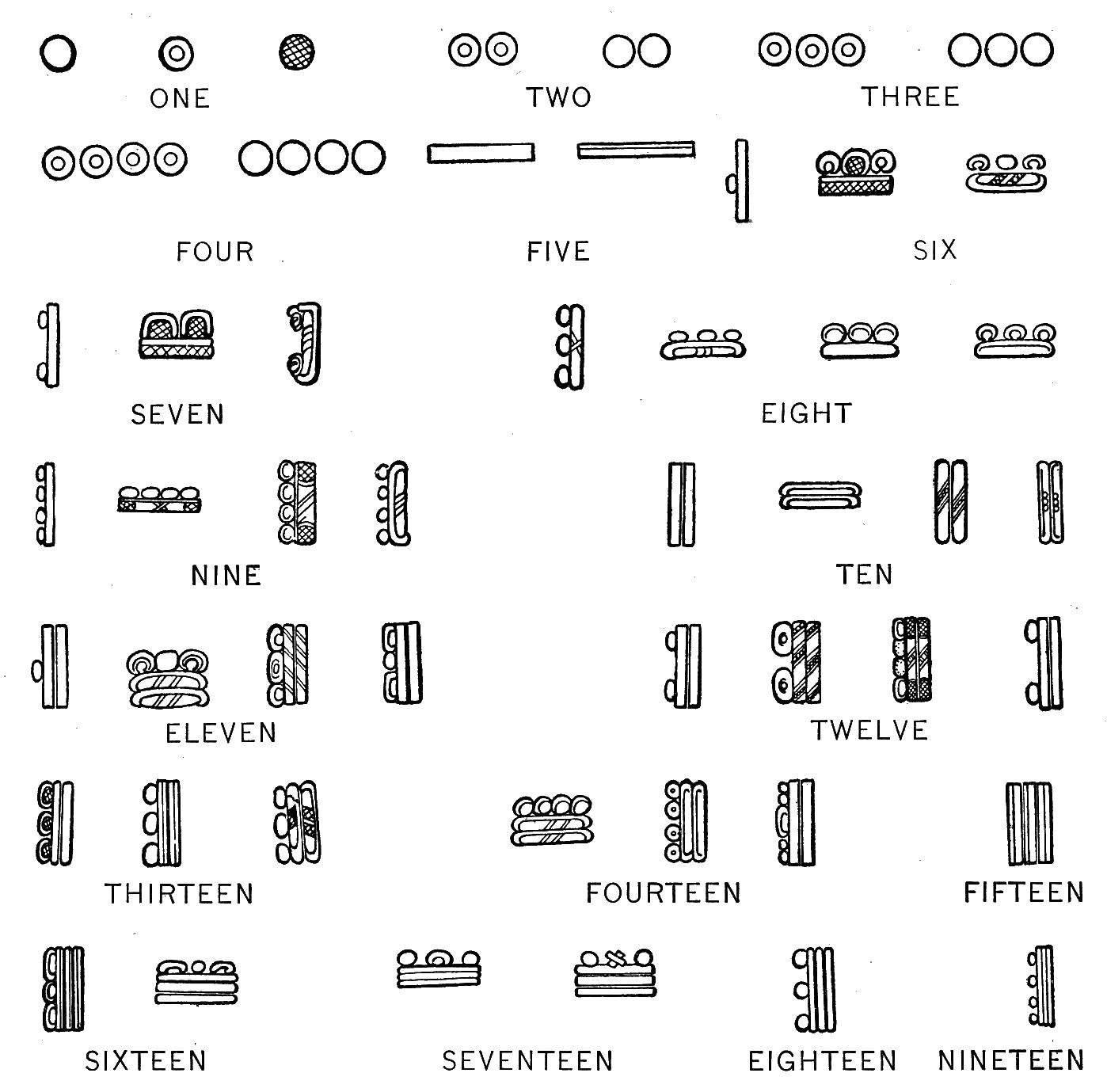 Normal forms of numerals 1 to 19, inclusive, in the inscriptions (see Wikisource usage for further information).